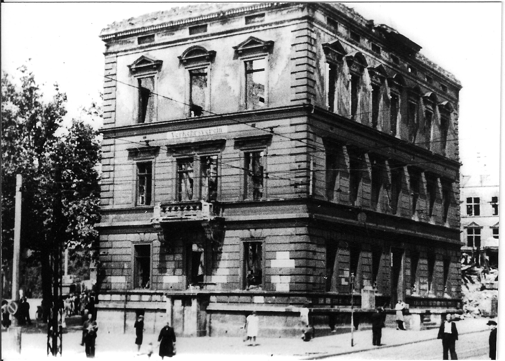 former town hall of Witten